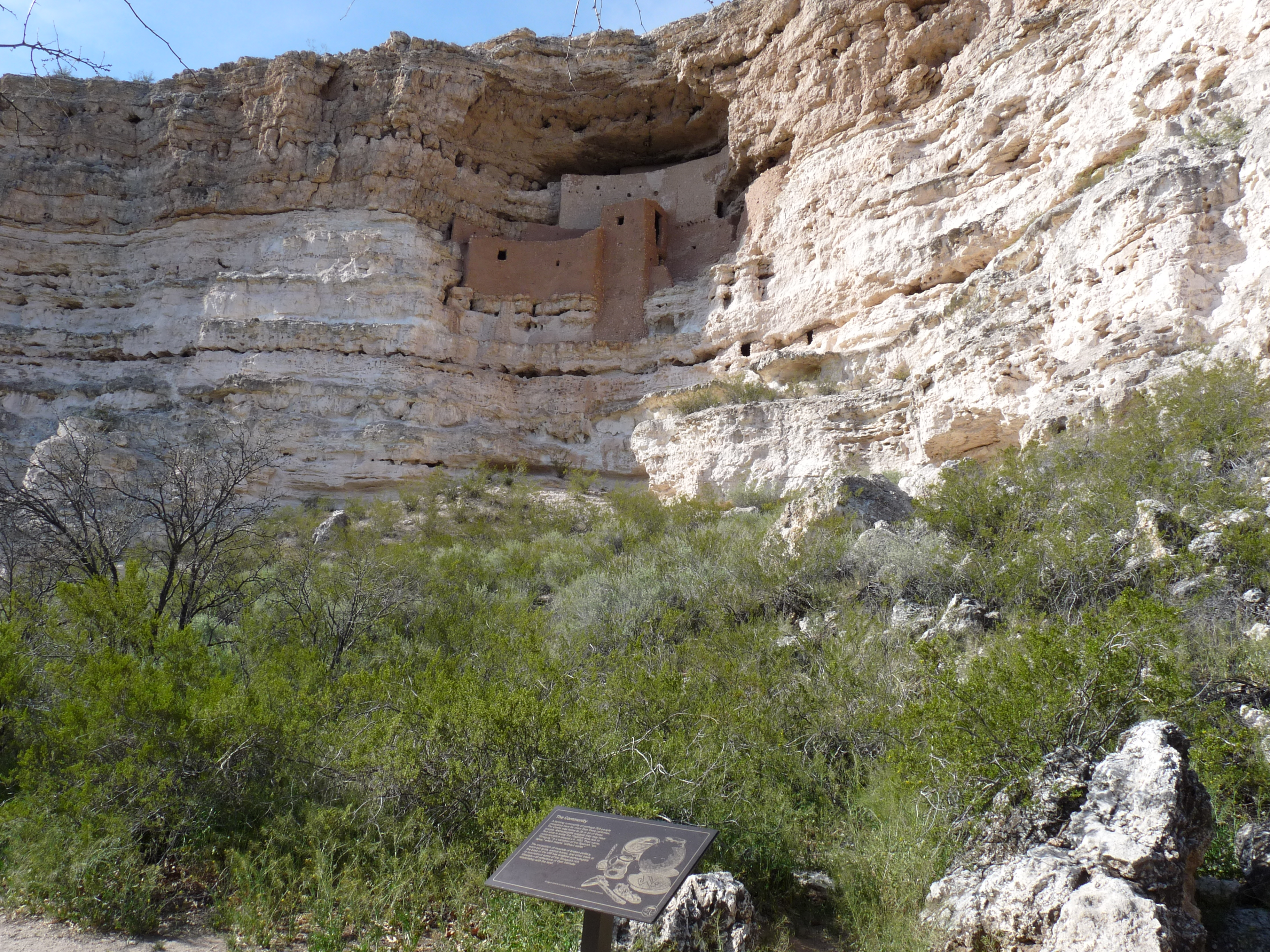 The image was taken by me, Venske, in April 2009.